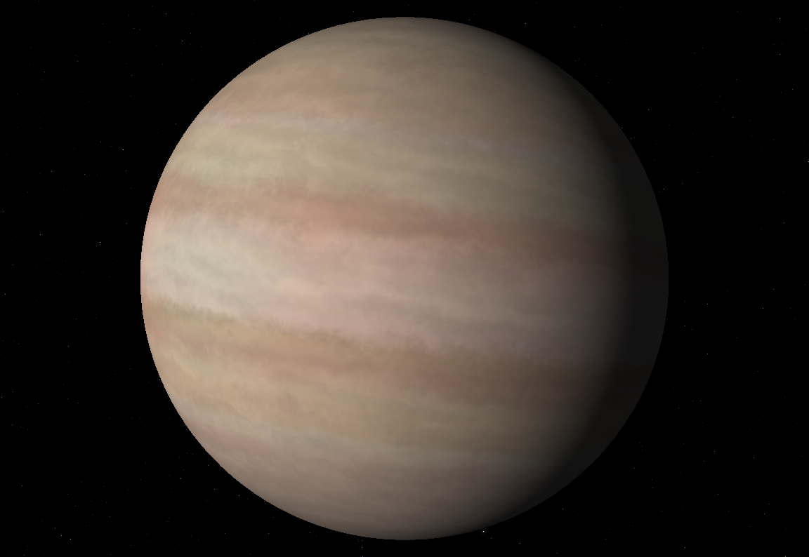 Class I exoplanet in Celestia.